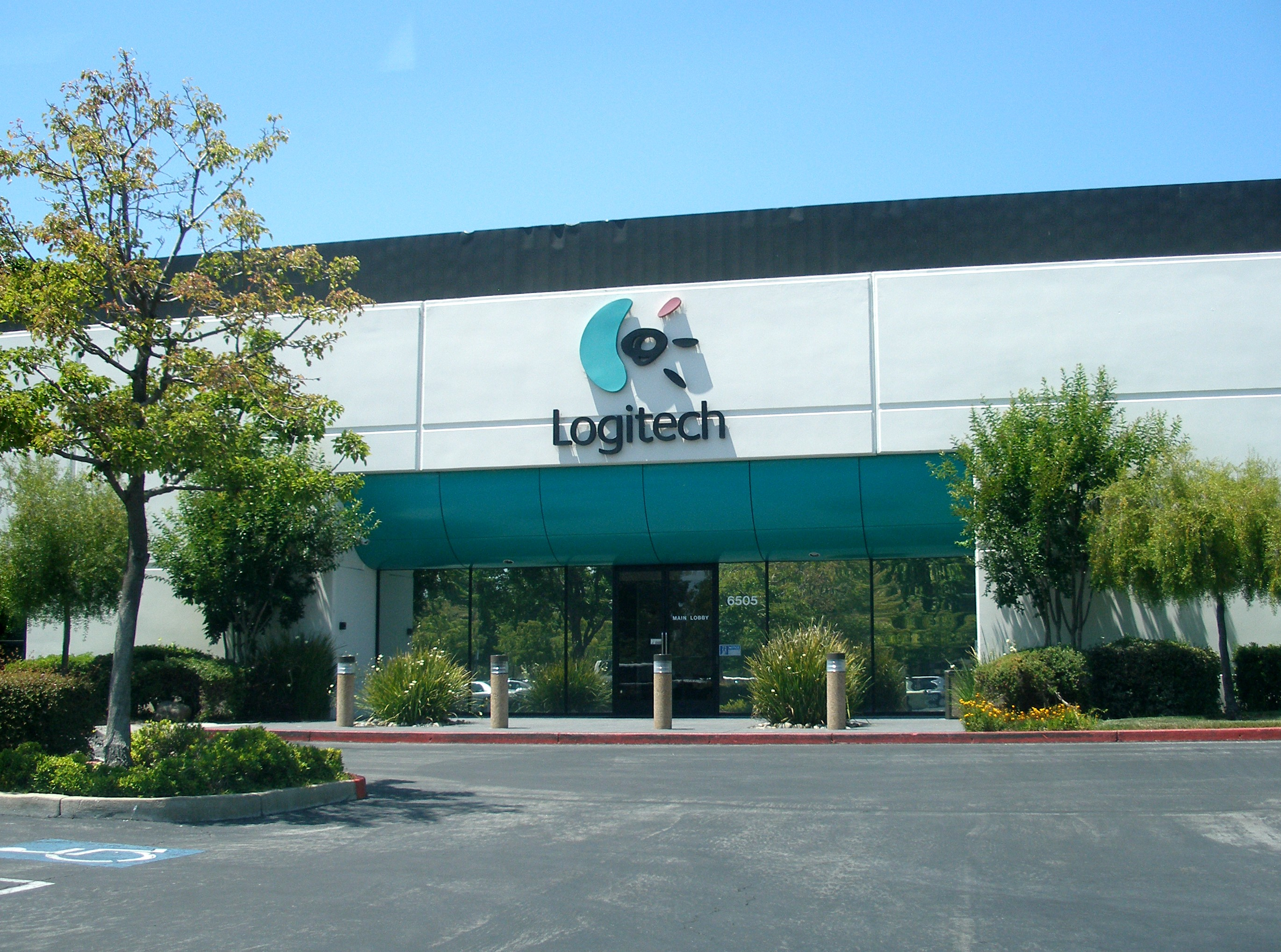 Logitech's previous North American office in Fremont.